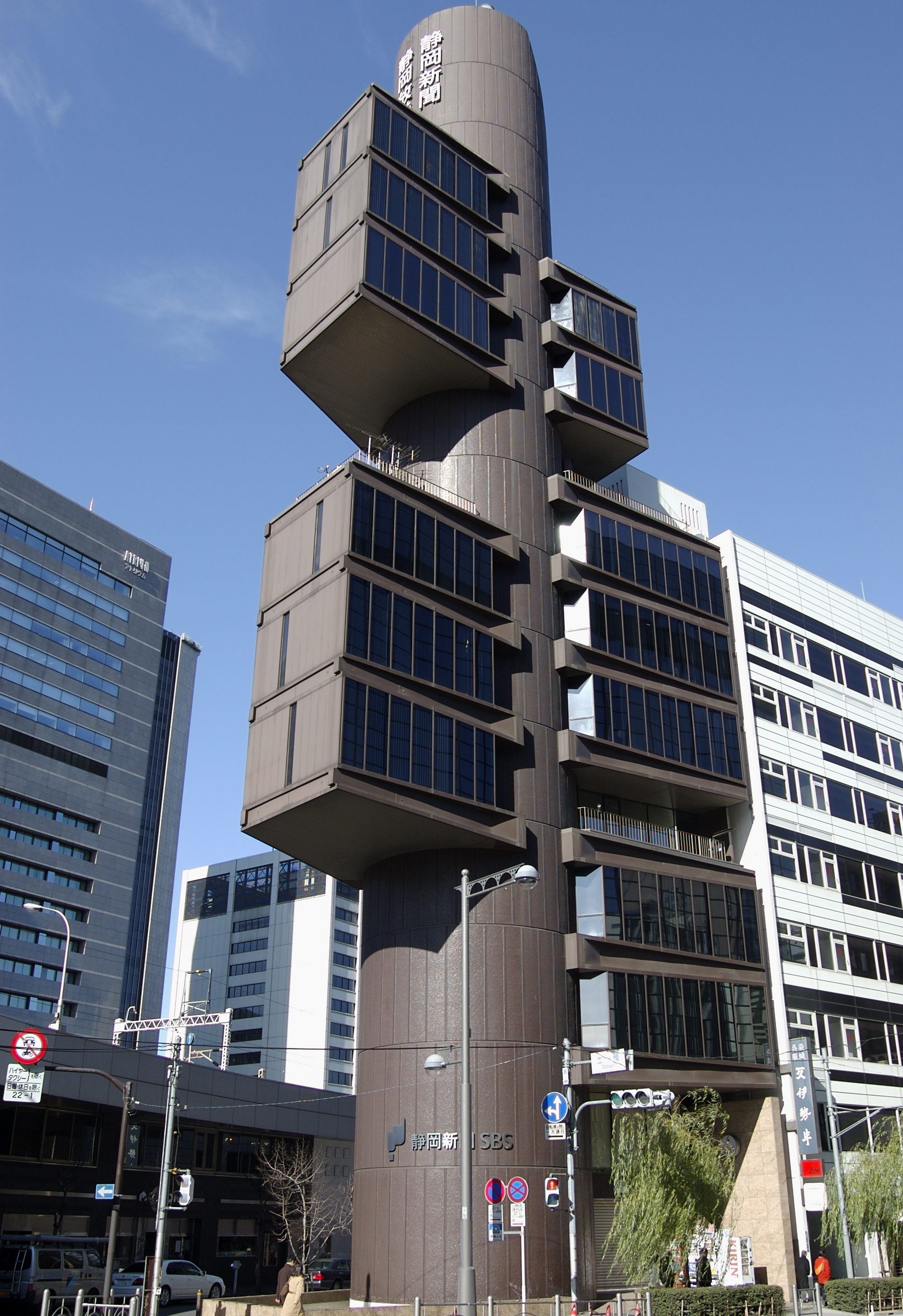 Shizuoka Press and Broadcasting Center in Tokyo